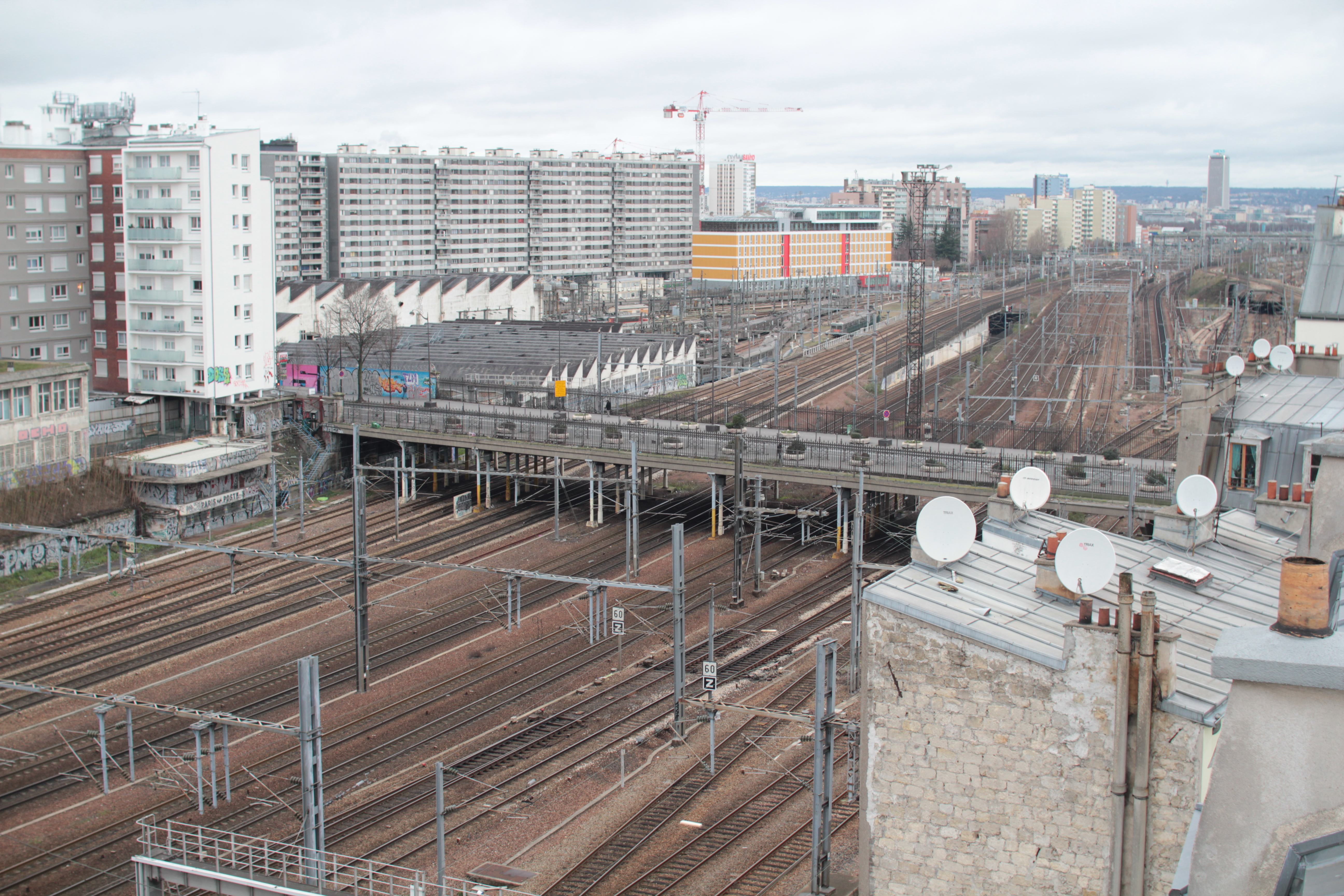 The Pont Marcadet bridge over the tracks of the Gare du Nord in Paris, previously the location of the Pont Marcadet railway station